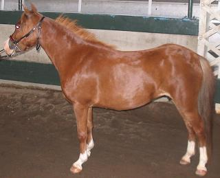 This is a classic American Shetland pony mare. Registered Name Sonora's Rockette Sox Photo was taken by Elizabeth M.E. Hall, of Fire Song Ponies - Iowa